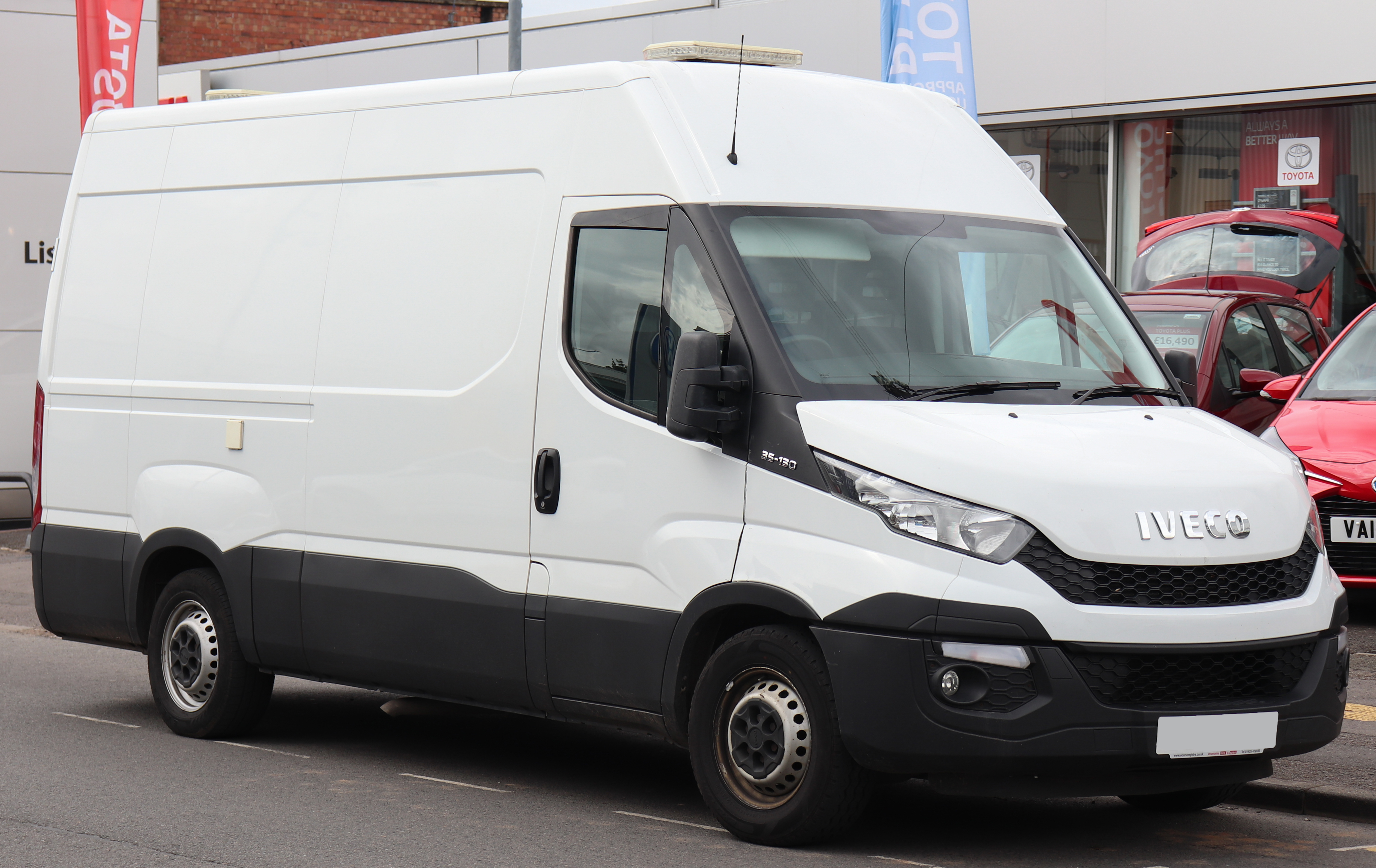 2014 Iveco Daily 35 S13 MWB 2.3 Taken in Stratford-upon-Avon